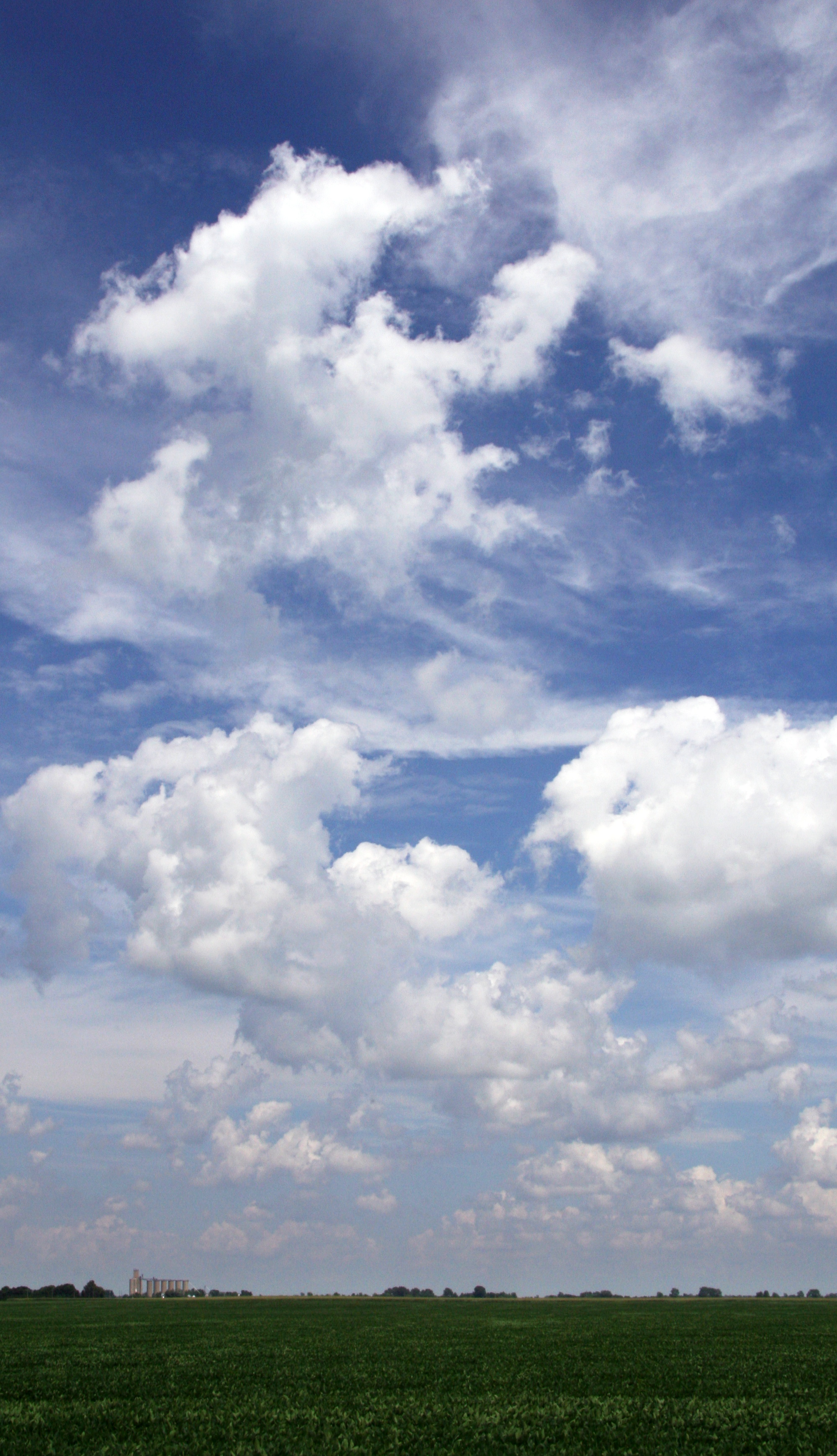 A cloudscape above soybean fields in Prairie Township, Warren County, Indiana. The grain elevators show the location of the small town of Tab.